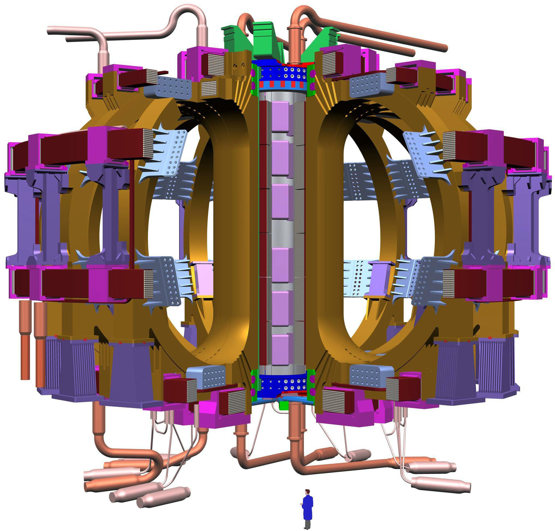 Larger schematic showing a tiny human figure indicates the scale of the ITER toroid. Published with permission of ITER Disclaimer: Any mention of commercial products within NIST web pages is for information only; it does not imply recommendation or endorsement by NIST. Use of NIST Information: These World Wide Web pages are provided as a public service by the National Institute of Standards and Technology (NIST). With the exception of material marked as copyrighted, information presented on these pages is considered public information and may be distributed or copied. Use of appropriate byline/photo/image credits is requested.